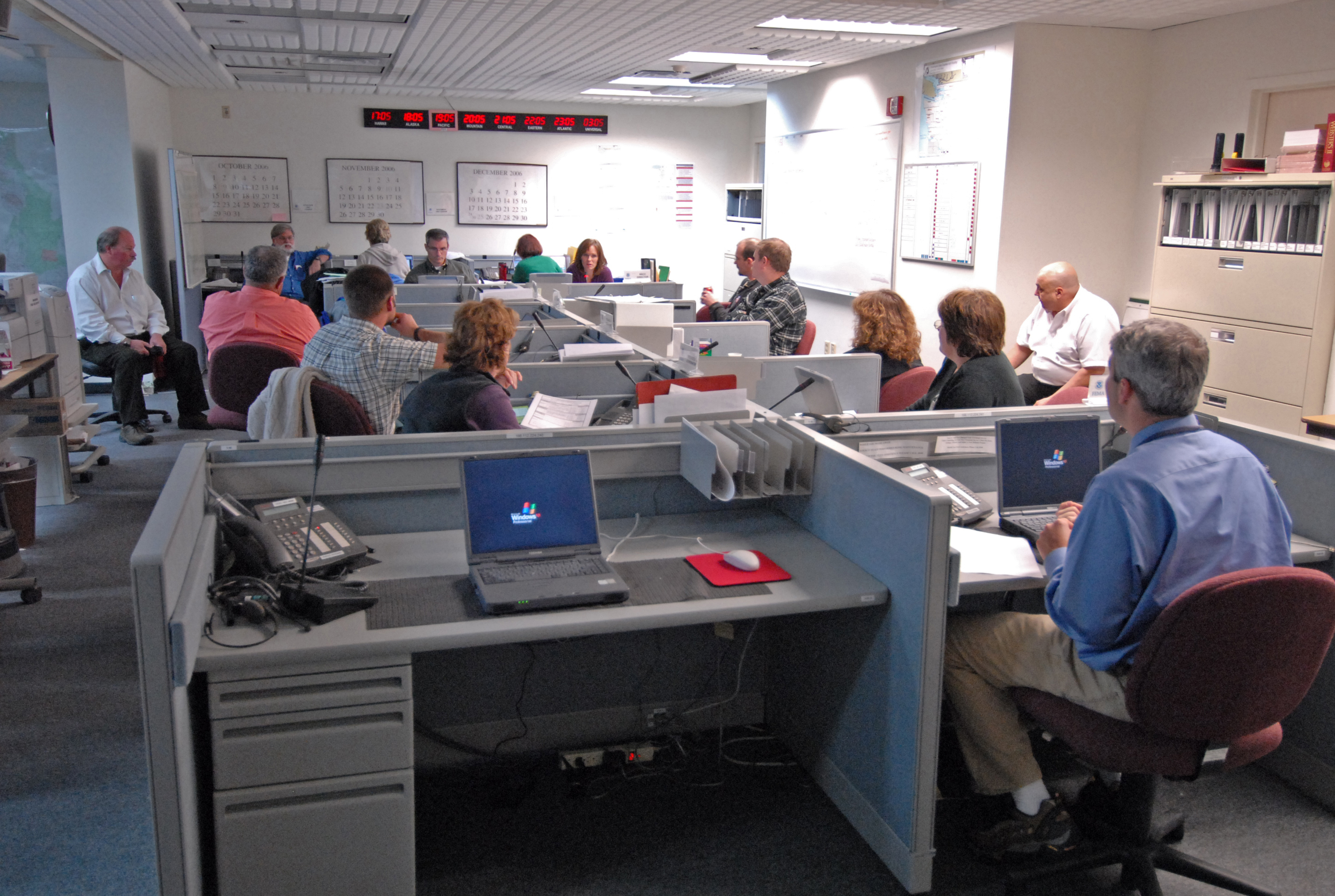 Bothell, WA, November 8, 2006 -- FEMA Region 10 Headquarters, Regional Response Coordination Center (RRCC) staff monitor flood activities in WA and OR. Heavy rains flooded many Western Washington rivers, homes, communities and towns. MARVIN NAUMAN/FEMA photo